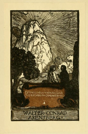 Walter Conrad Arensberg Ex libris designed by Aubrey Beardsley. The motto in italian, Ditene dove la montagna na si che possibilile... is from Dante's The Divine Comedy.